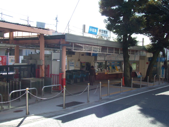 Building of Sangubashi station,OER-ODAWARA-LINE,Odakyu Electric Railwey,Japan